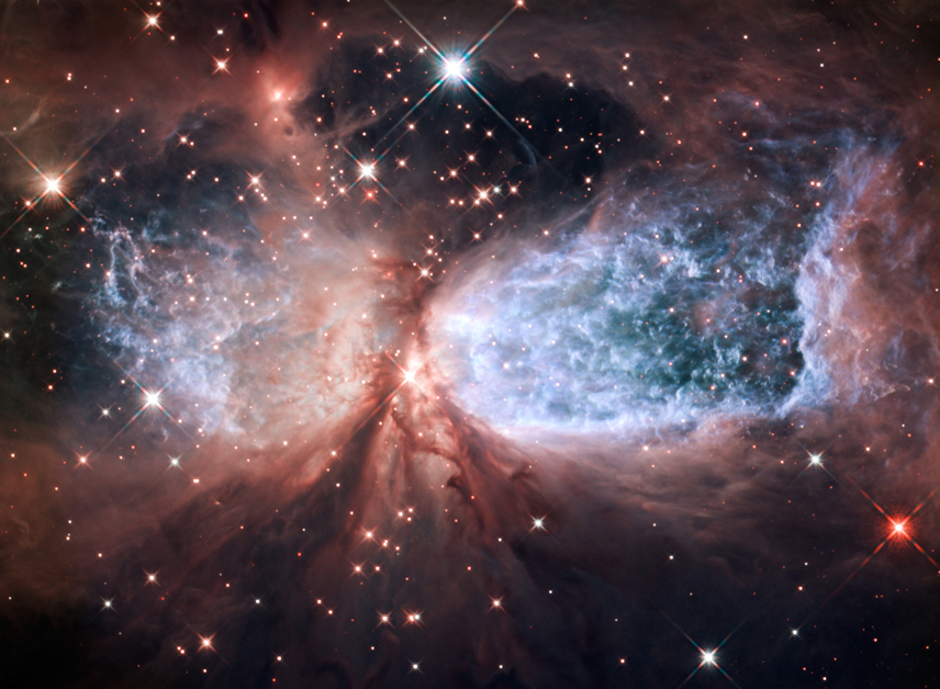 The bipolar star-forming region, called Sharpless 2-106, looks like a soaring, celestial snow angel. The outstretched “wings” of the nebula record the contrasting imprint of heat and motion against the backdrop of a colder medium. Twin lobes of super-hot gas, glowing blue in this image, stretch outward from the central star. This hot gas creates the “wings” of our angel. A ring of dust and gas orbiting the star acts like a belt, cinching the expanding nebula into an “hourglass” shape. To read more about this image go to: Credit: NASA, ESA, and the Hubble Heritage Team (STScI/AURA) NASA image use policy. NASA Goddard Space Flight Center enables NASA’s mission through four scientific endeavors: Earth Science, Heliophysics, Solar System Exploration, and Astrophysics. Goddard plays a leading role in NASA’s accomplishments by contributing compelling scientific knowledge to advance the Agency’s mission. Follow us on Twitter Like us on Facebook Find us on Instagram